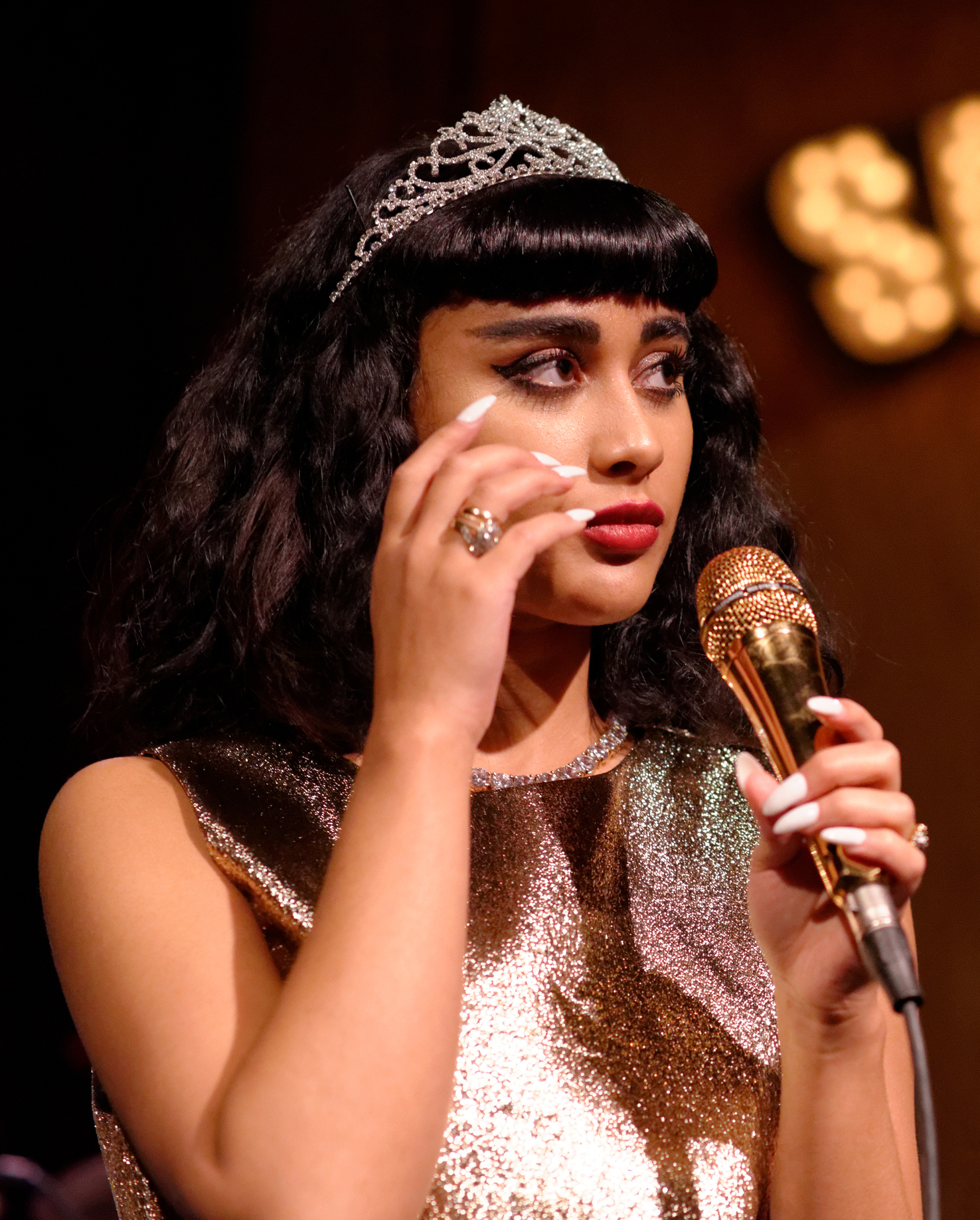 Natalia Kills performing live at the Bootleg Bar in Los Angeles California on Sunday February 16th, 2014. Part of the #THENEWNEW artist residency presented by Filter Magazine and Revolve Clothing.